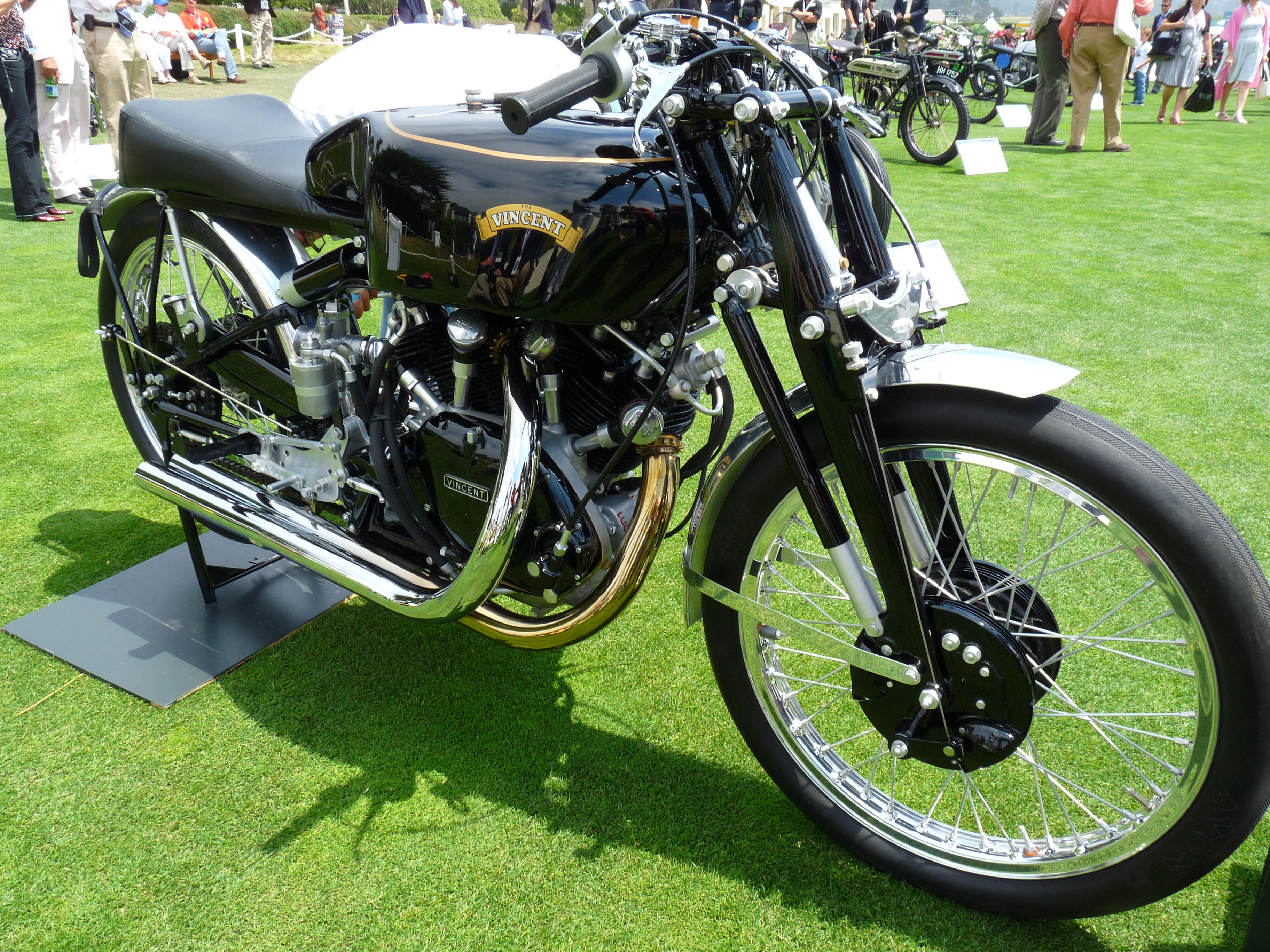 1947 Vincent Series B Rapide Special "Gunga Din"